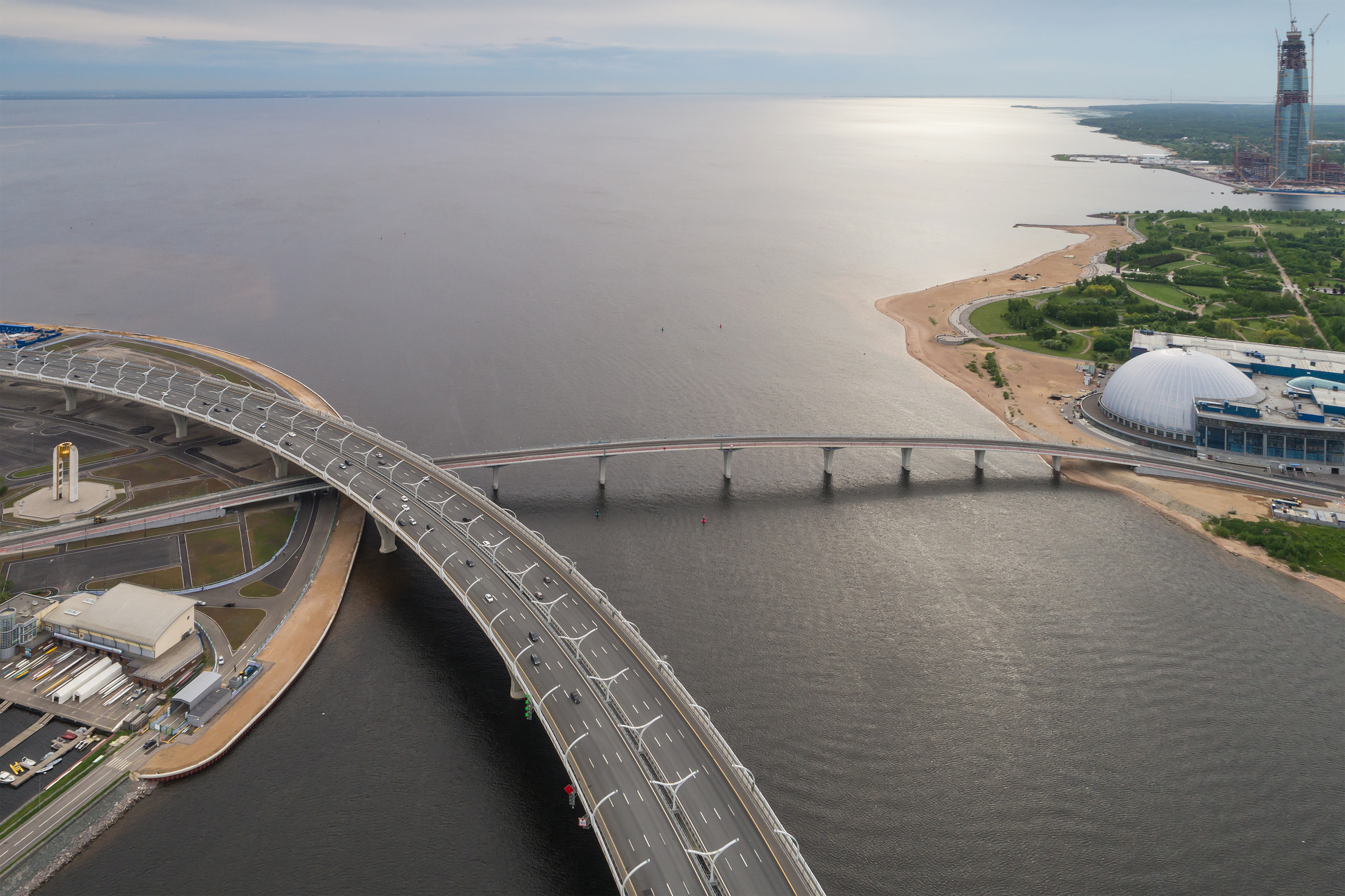 Aerial photo of Yakhtenny Bridge (right) in Saint Petersburg (Russia).